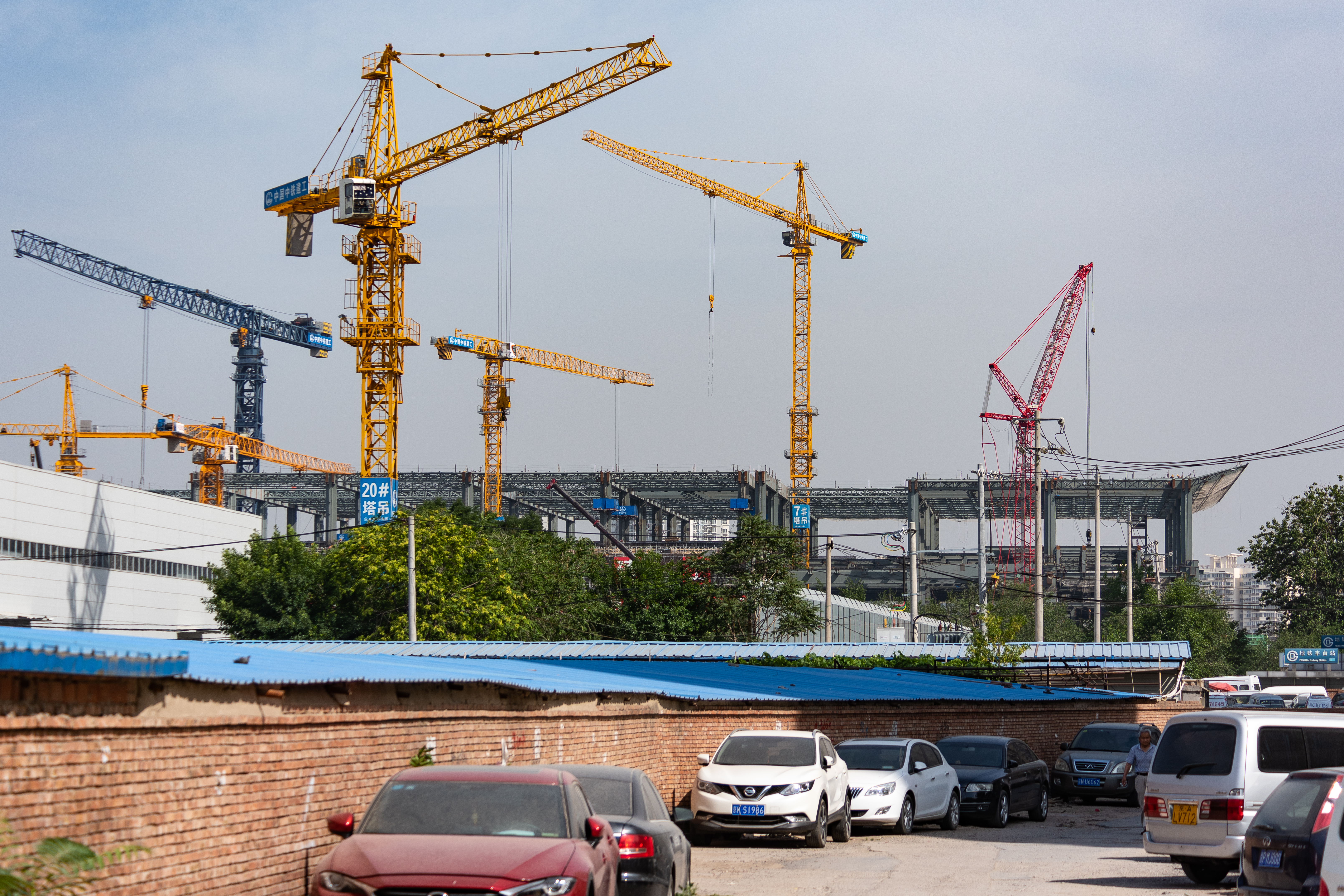 No higher angles available.